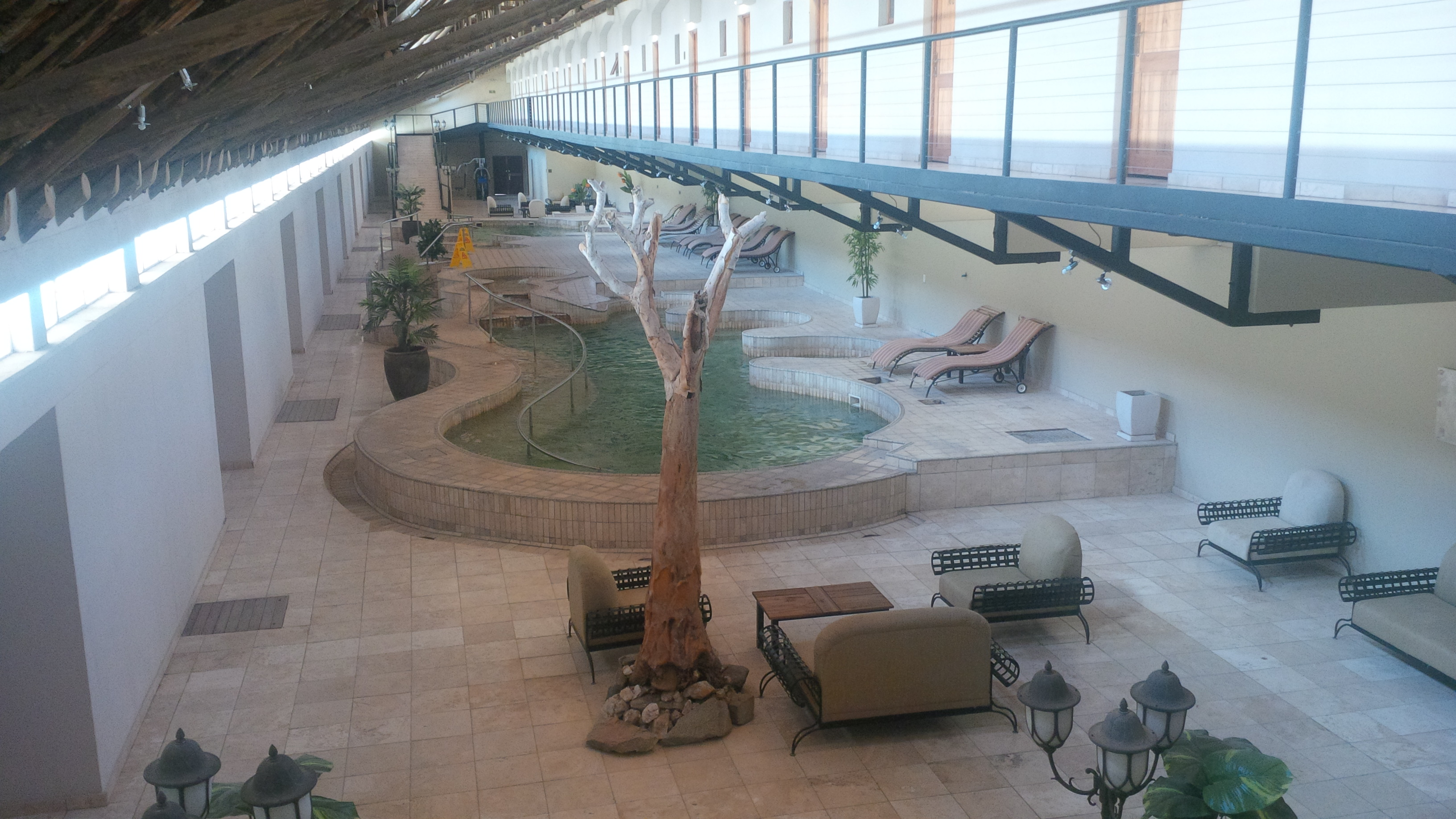 Ai Ais SPA inside pools